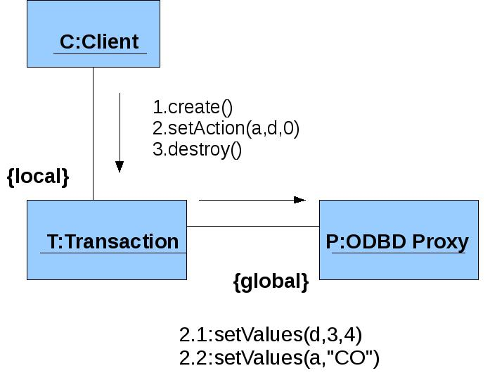 the collaboration diagram showing constraints